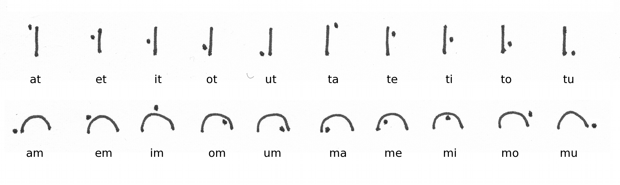 Examples of vowel positions in John Byrom's English shorthand system (1720). Based on information in the shorthand book "The Universal English Shorthand" (1767), page 37, and Olof W. Melin's "Stenografiens historia, part I" (1927), page 124.